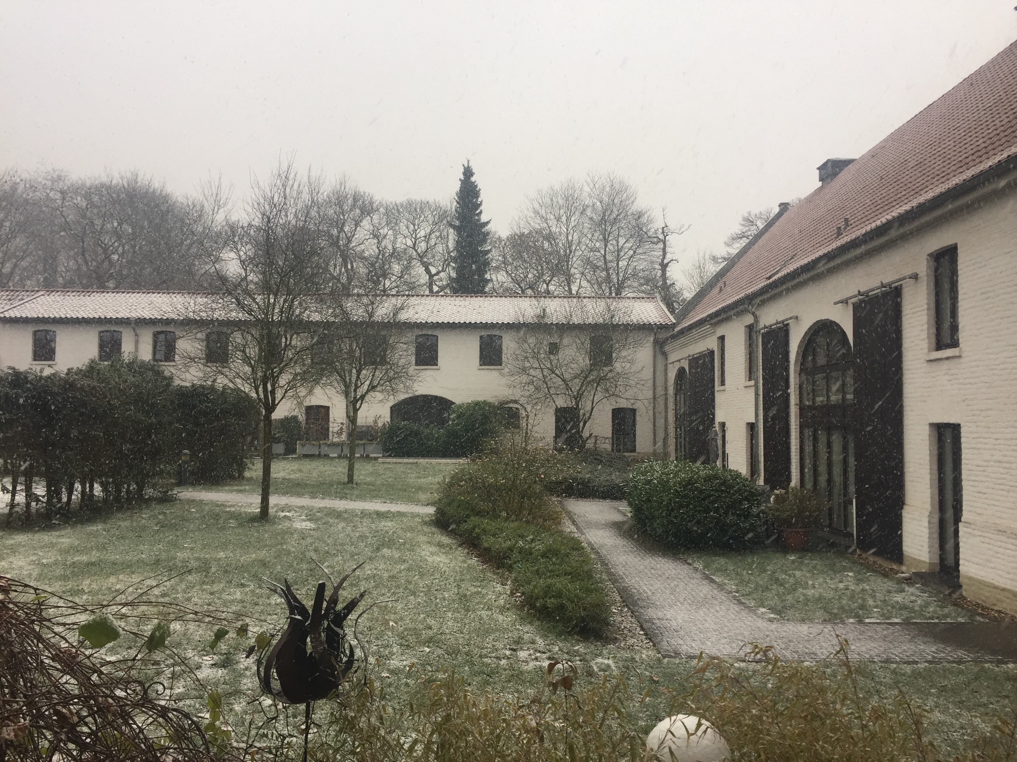 "Gut Stöckheim" and its snowy patio.